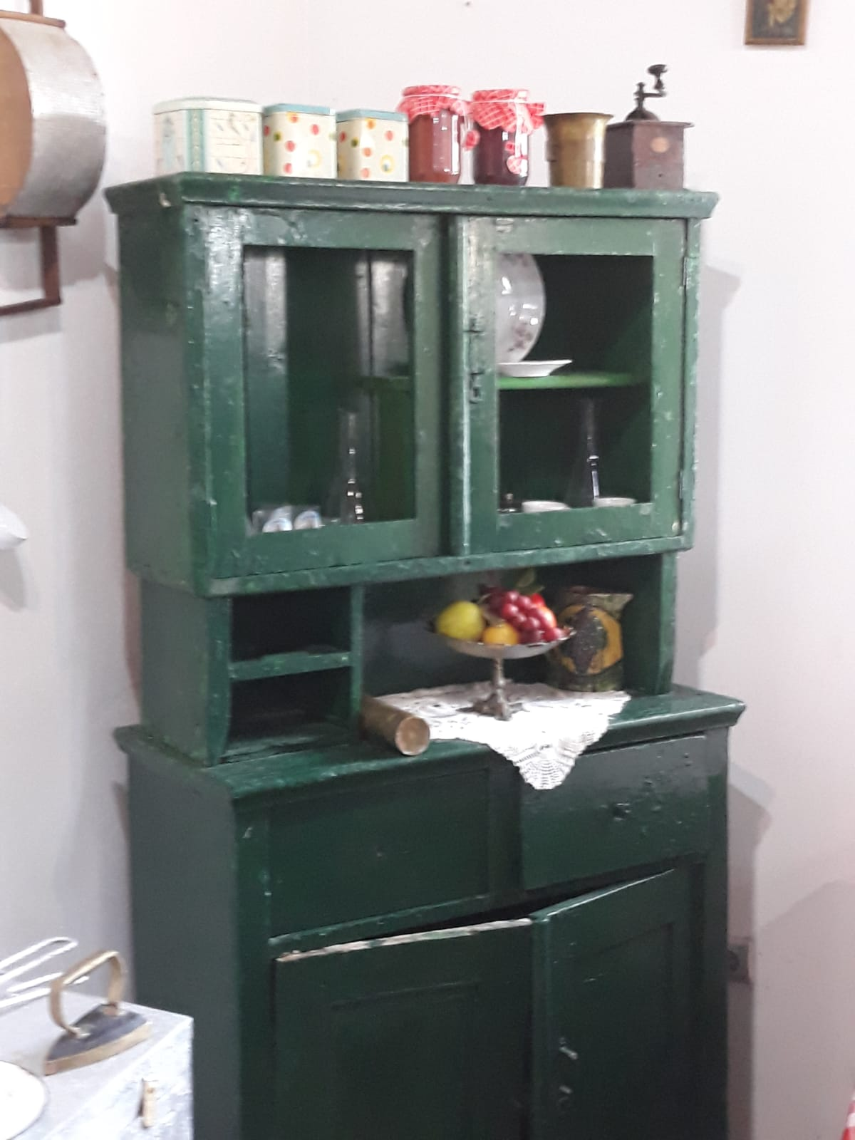 Part of the kitchen replica that was used in the 20th century.